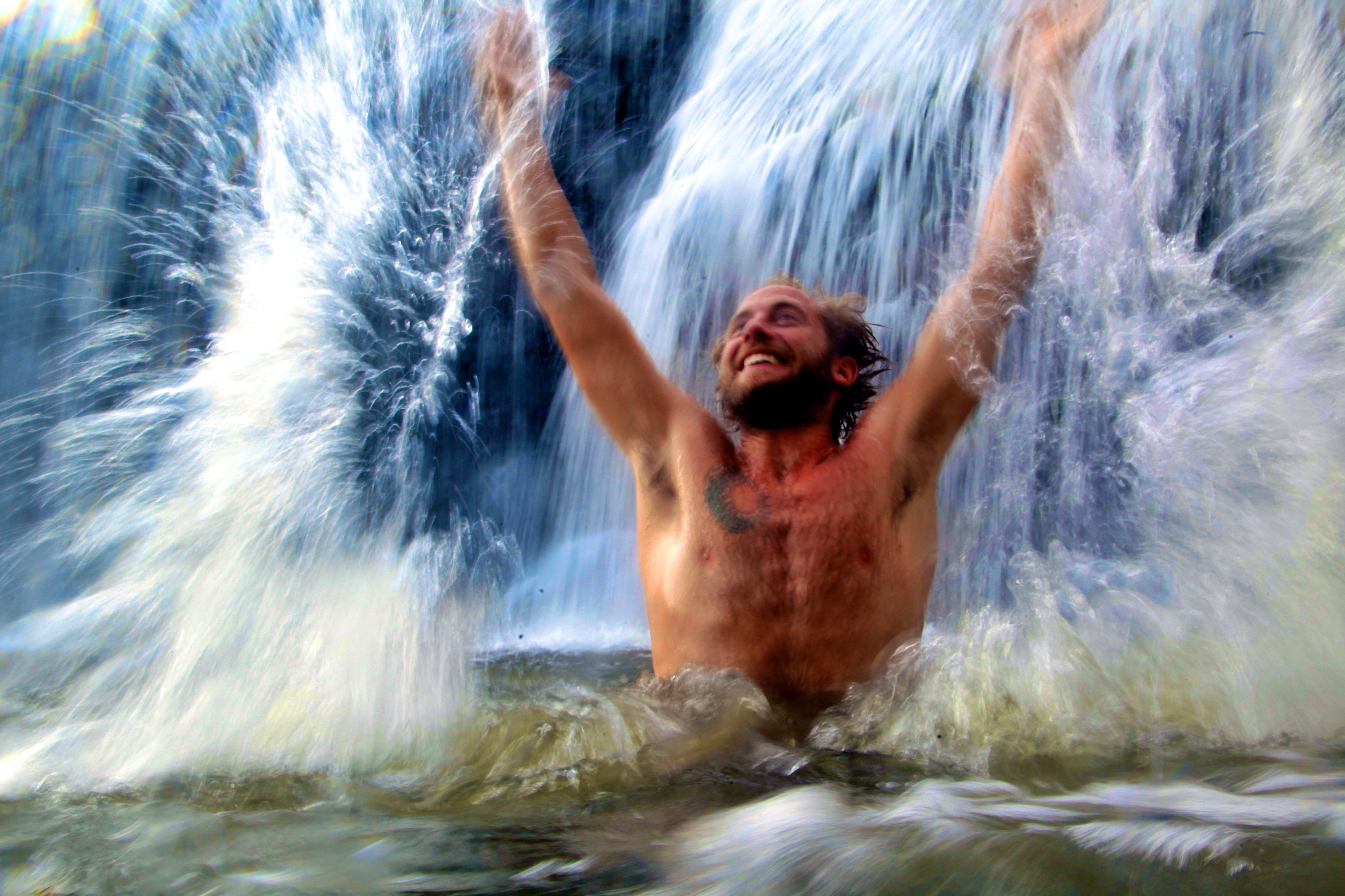 Rob Greenfield - Lessons Learned From a Year Without Showering